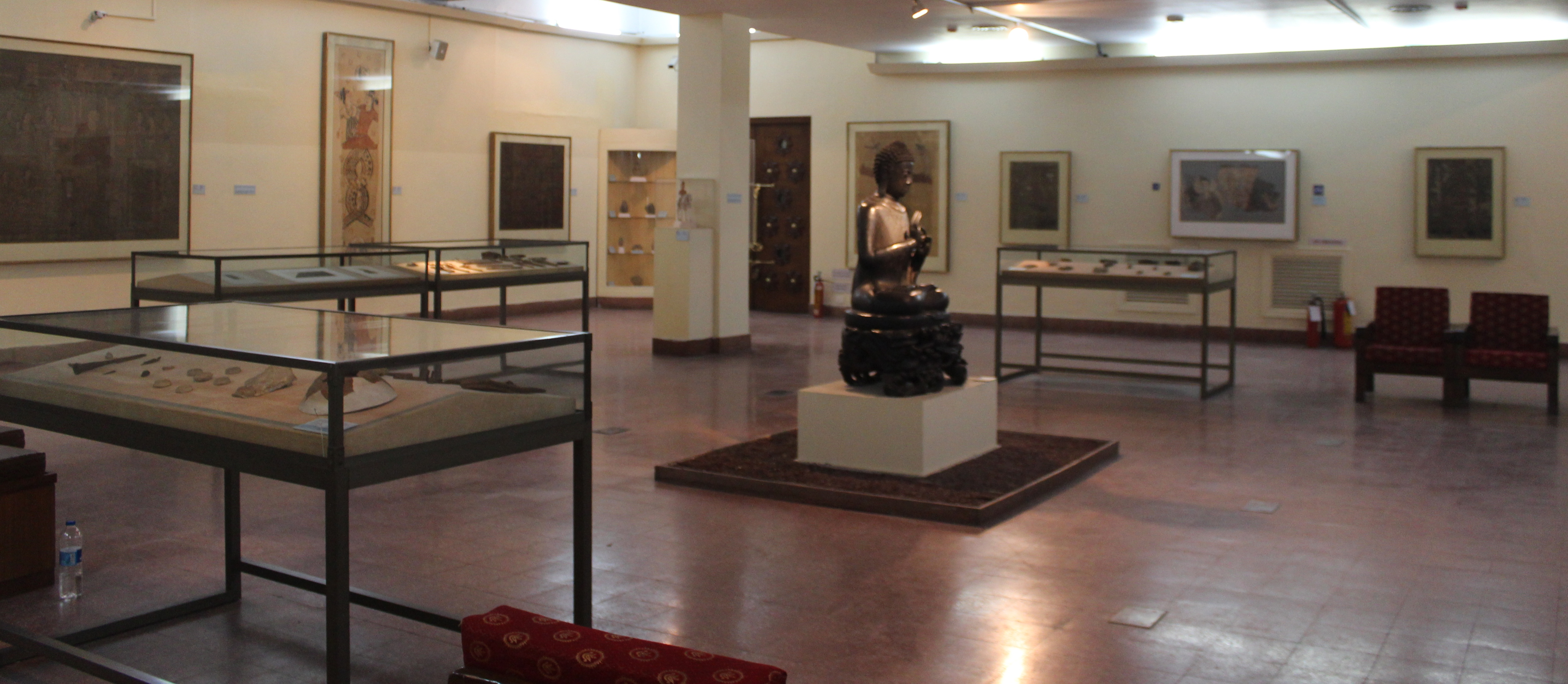 A view of the central asian gallery